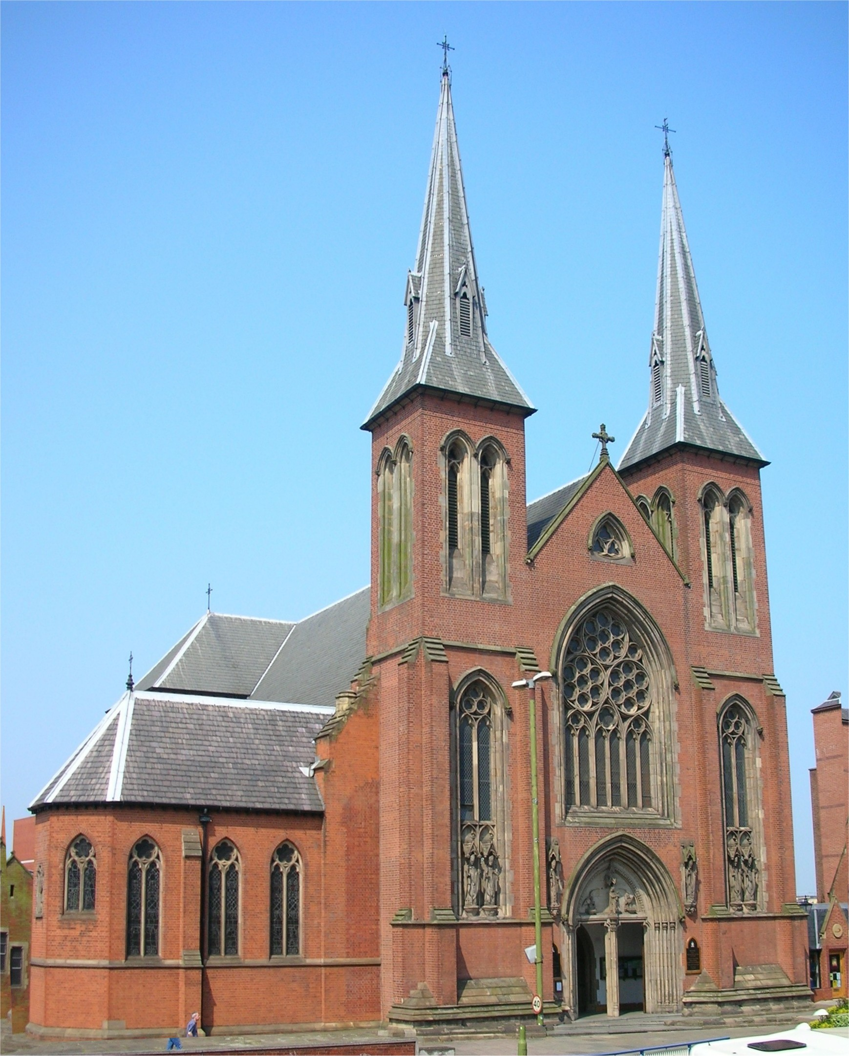 RC Cathedral of St Chad, Birmingham, England, photographed by me 10th May 2006.